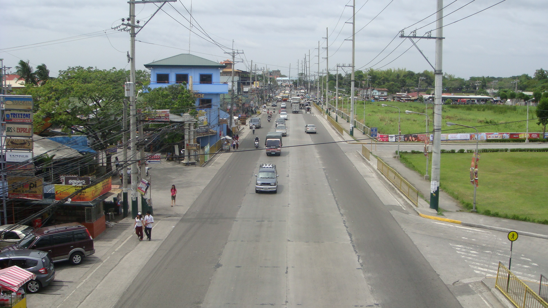 Overview of McArthur Highway from Flyover of SM City Marilao